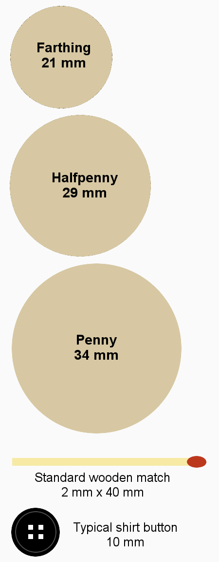 An approximate size comparison schematic of the Conder tokens issued from 1787 to 1802. A standard size matchstick and shirt button are also shown for comparison.